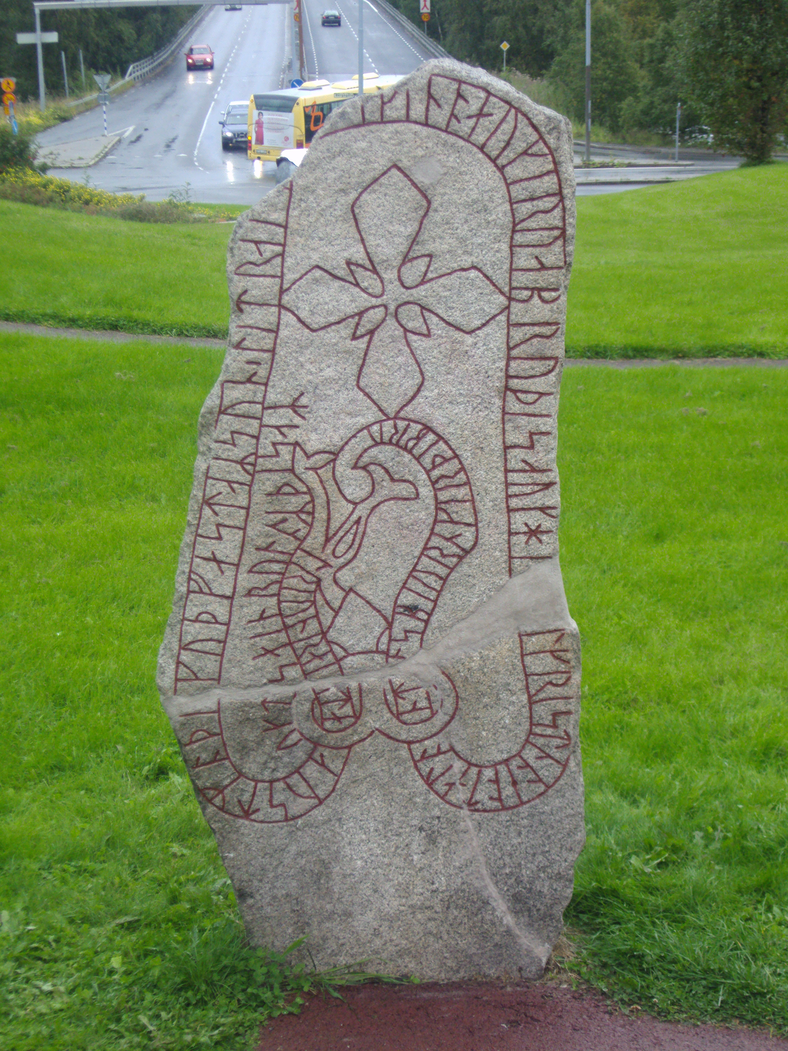 Frösö Runestone